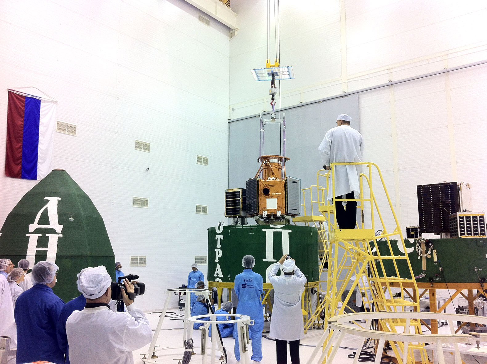 Dnepr Space Head Module integration with customers’ spacecraft was successfully completed in the Yasny Launch Base AITB on November 13, 2013.